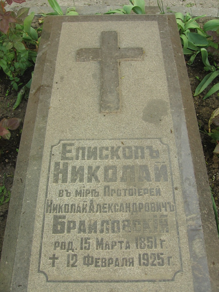 Grave of bishop Nicholas Brailovsky